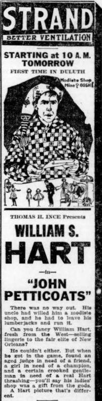 Newspaper ad for the American western film John Petticoats (1919) with William S. Hart, on page 13 of the January 24, 1920 Duluth Herald.